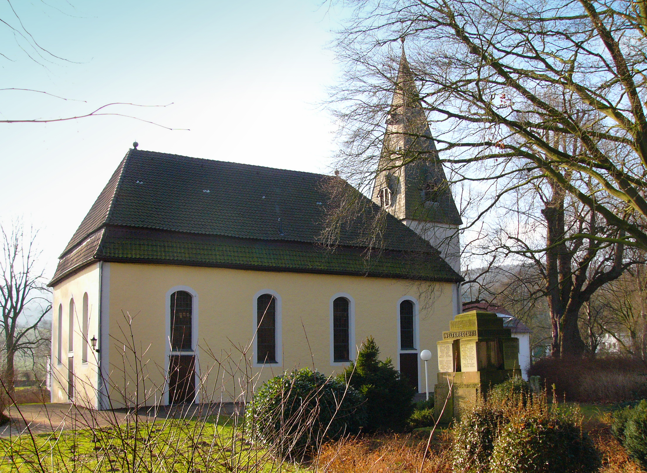 Church in Stapelage, Germany, rear view